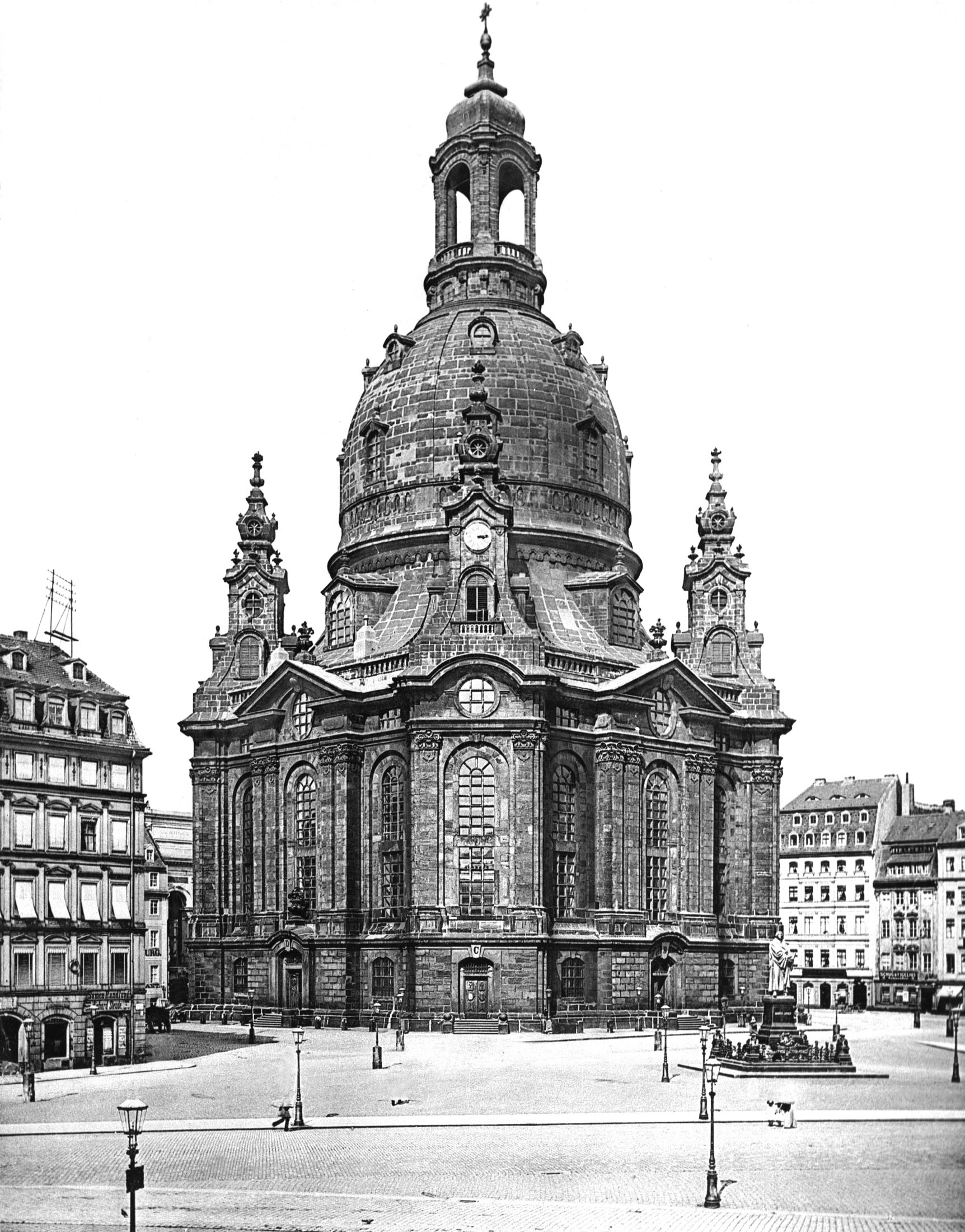 Frauenkirche Dresden ca. 1897